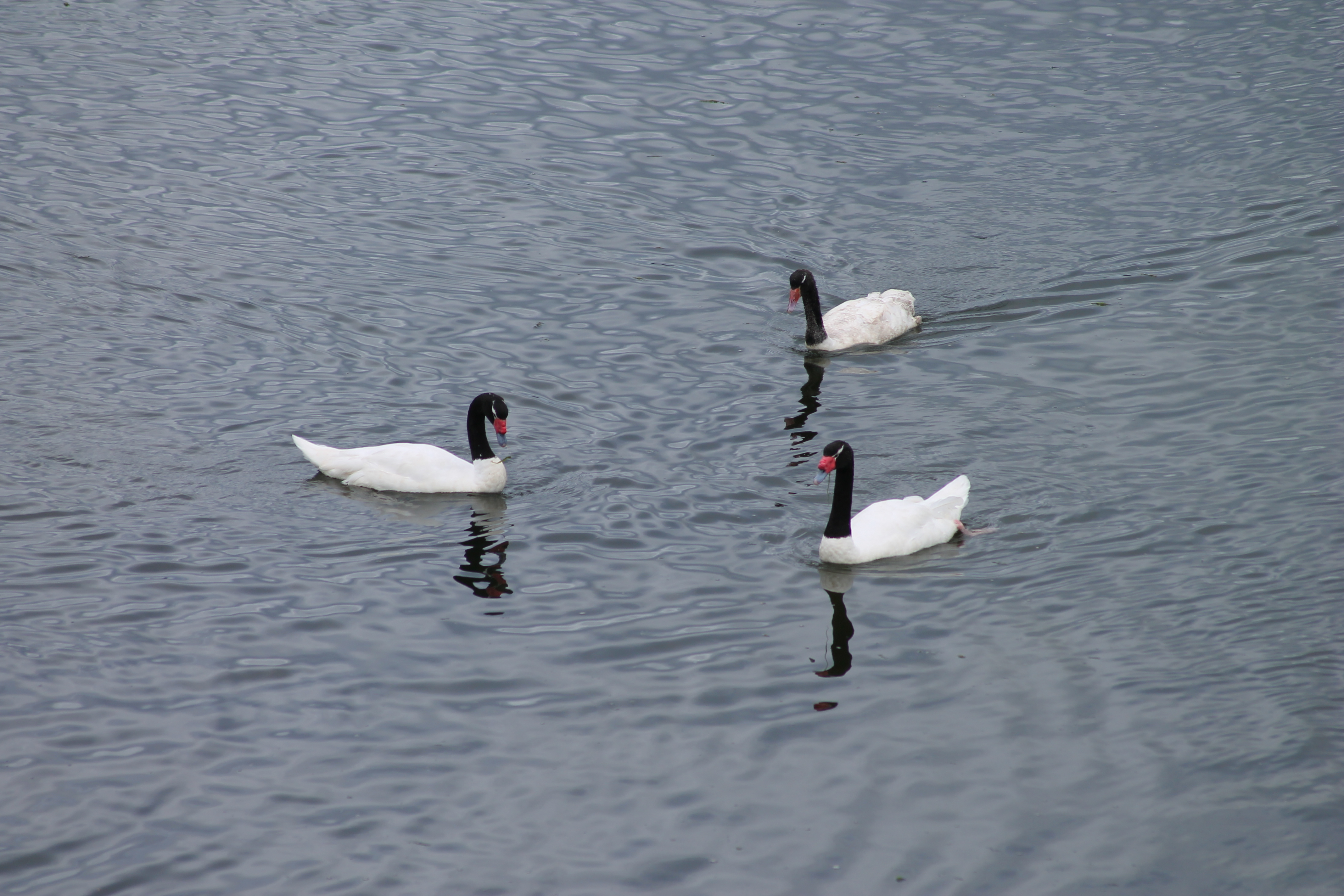 Black-necked swans in Castro, Chiloé